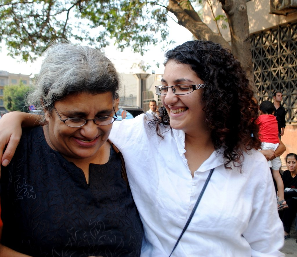 Activist Laila Soueif and her daughter Mona Seif in October 14, 2011